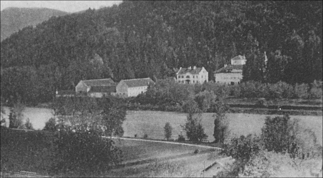 Postcard of Boštanj